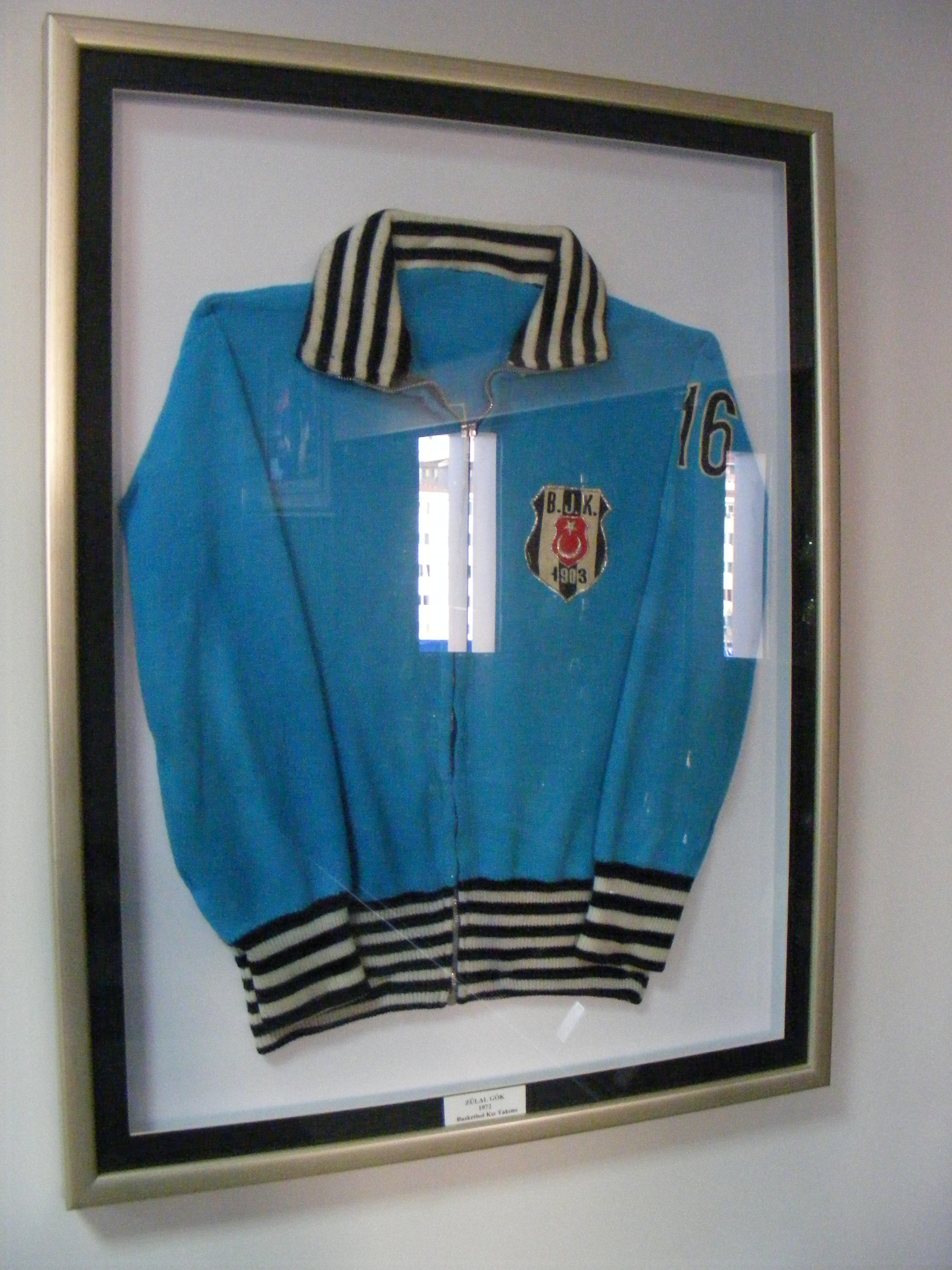 A jersey of Beşiktaş girl's basketball team's player Zülal Gök (1972)